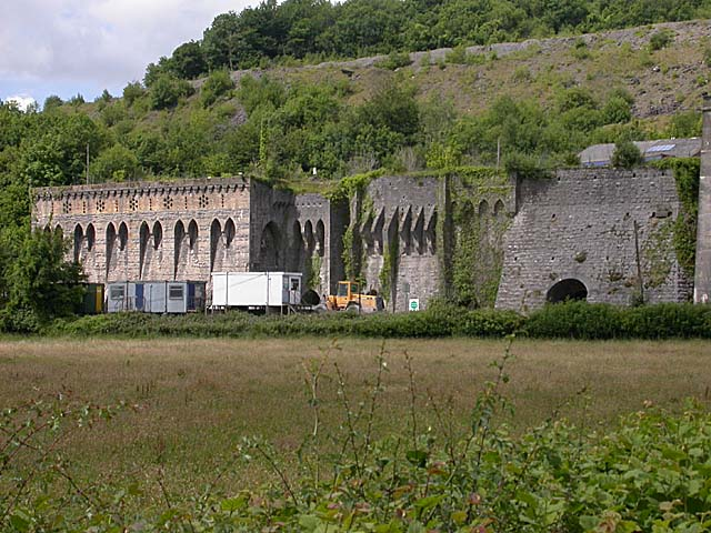 Llandybie quarry. With the opening of the Llanelly Railway in 1857 the quarries at Llandybie were developed on a large scale. The bank of six ornate kilns were built in 1856 by the surveyor and architect R K Penson who was heavily involved in the development of the quarries. Later extensions took the number of kilns in production to nine by 1900.